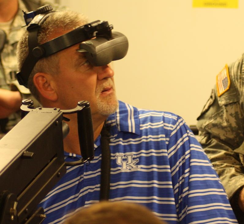 Kentucky linebackers coach Chuck Smith visits the Kentucky National Guard in 2010.